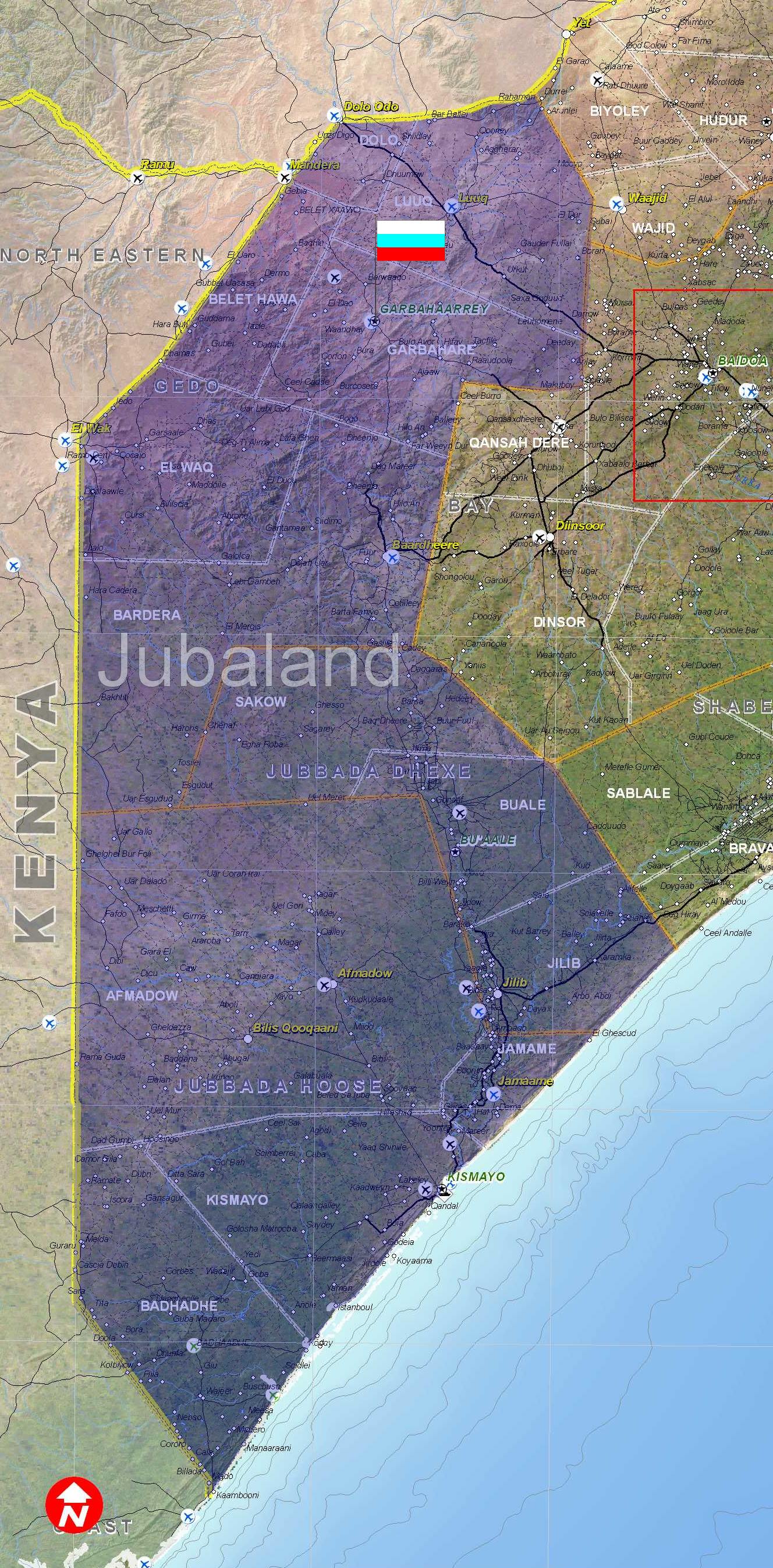 Jubaland map, is a detailed map of Jubaland territory including the three provinces of Jubaland(Jubbada Hoose, Jubbada Dhexe & Gedo) and the many districts. the capital of the autonomous state of Jubaland is Garbohaarey, the commercial capital is Kismaayo and the most populous city is Beledxaawo.